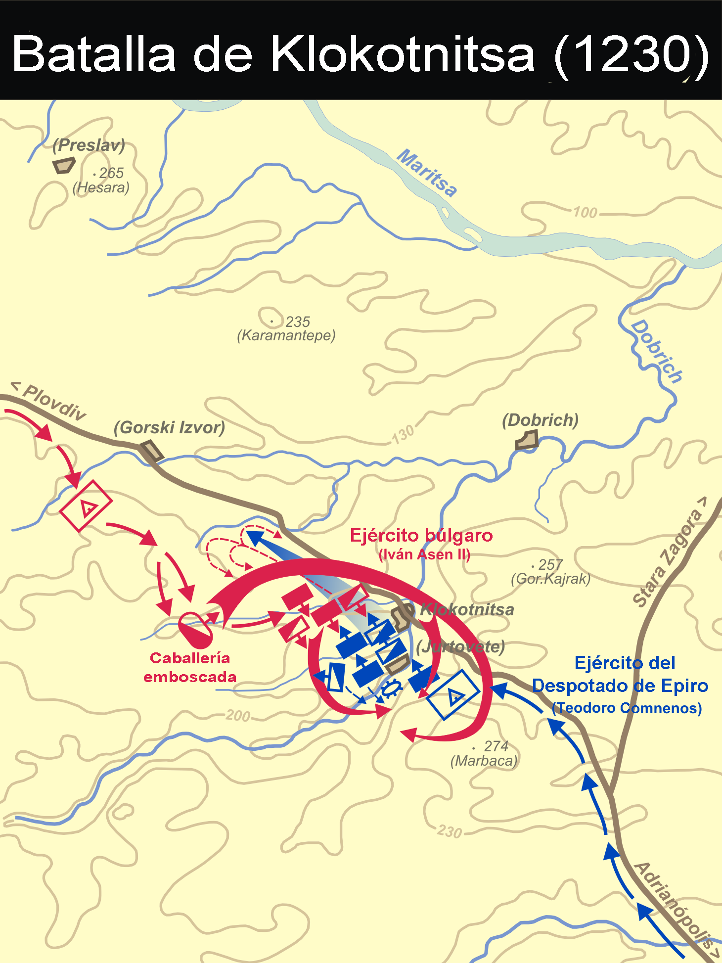 Battle of Klokotnitsa (9 March 1230) (labels in Spanish)